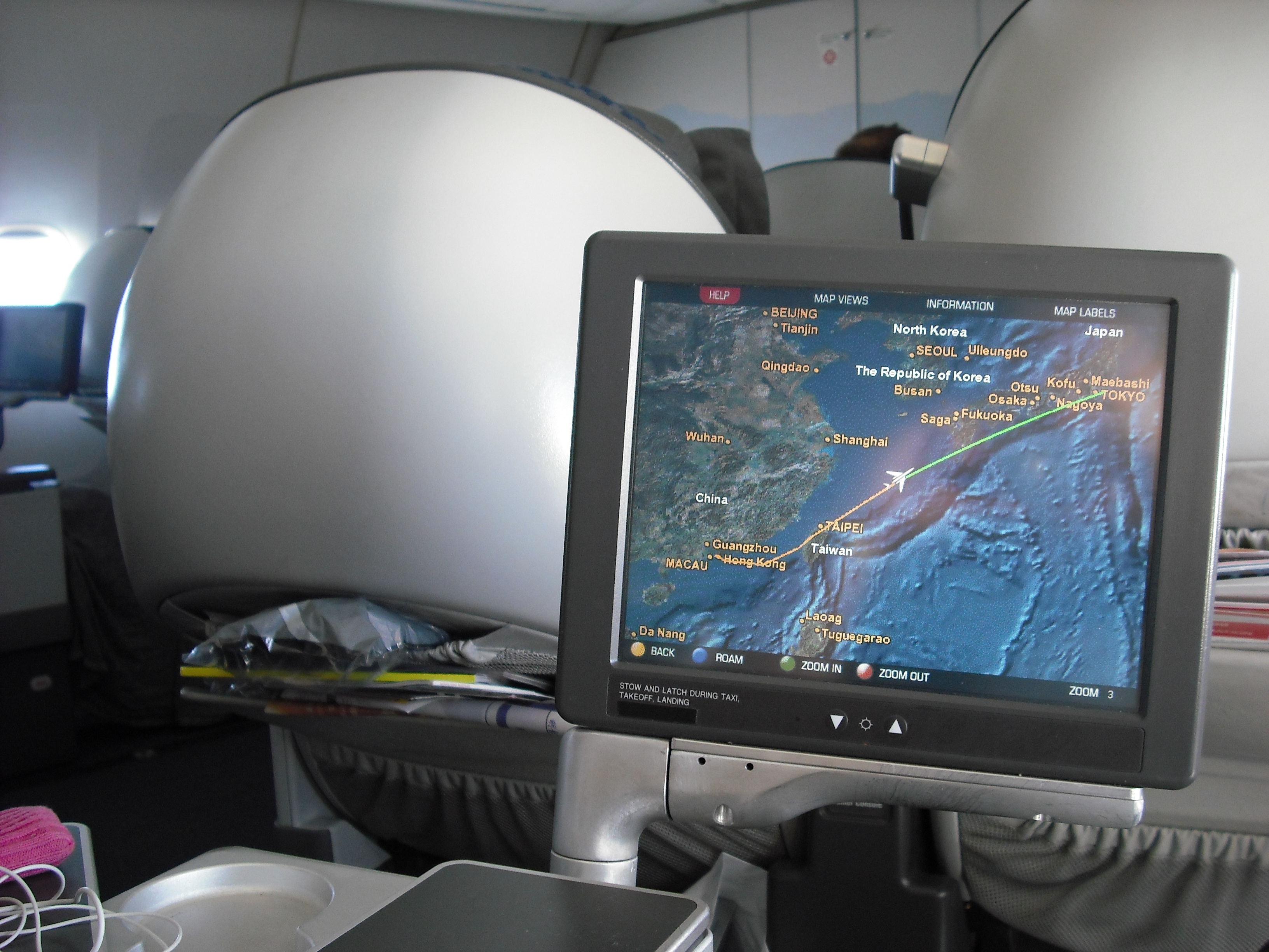 World Business Class seat, Boeing 747-400